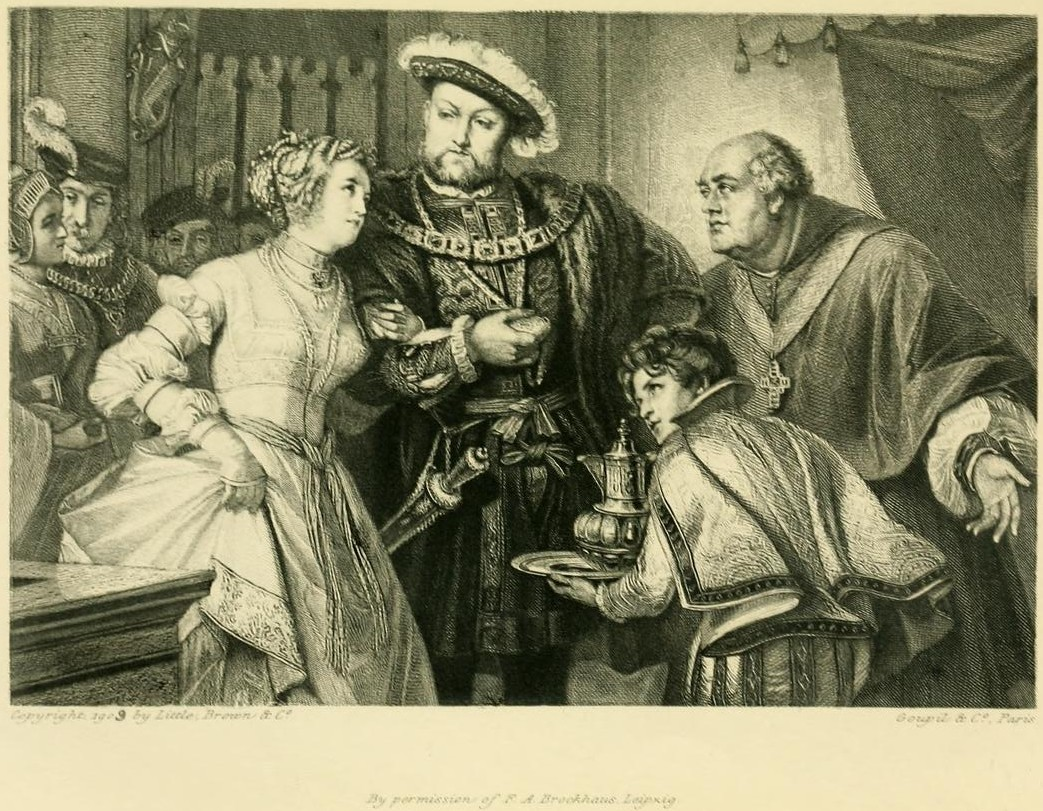 Friedrich Pecht, Henry VIII and Anne Boleyn; engraving by T. L. Raab